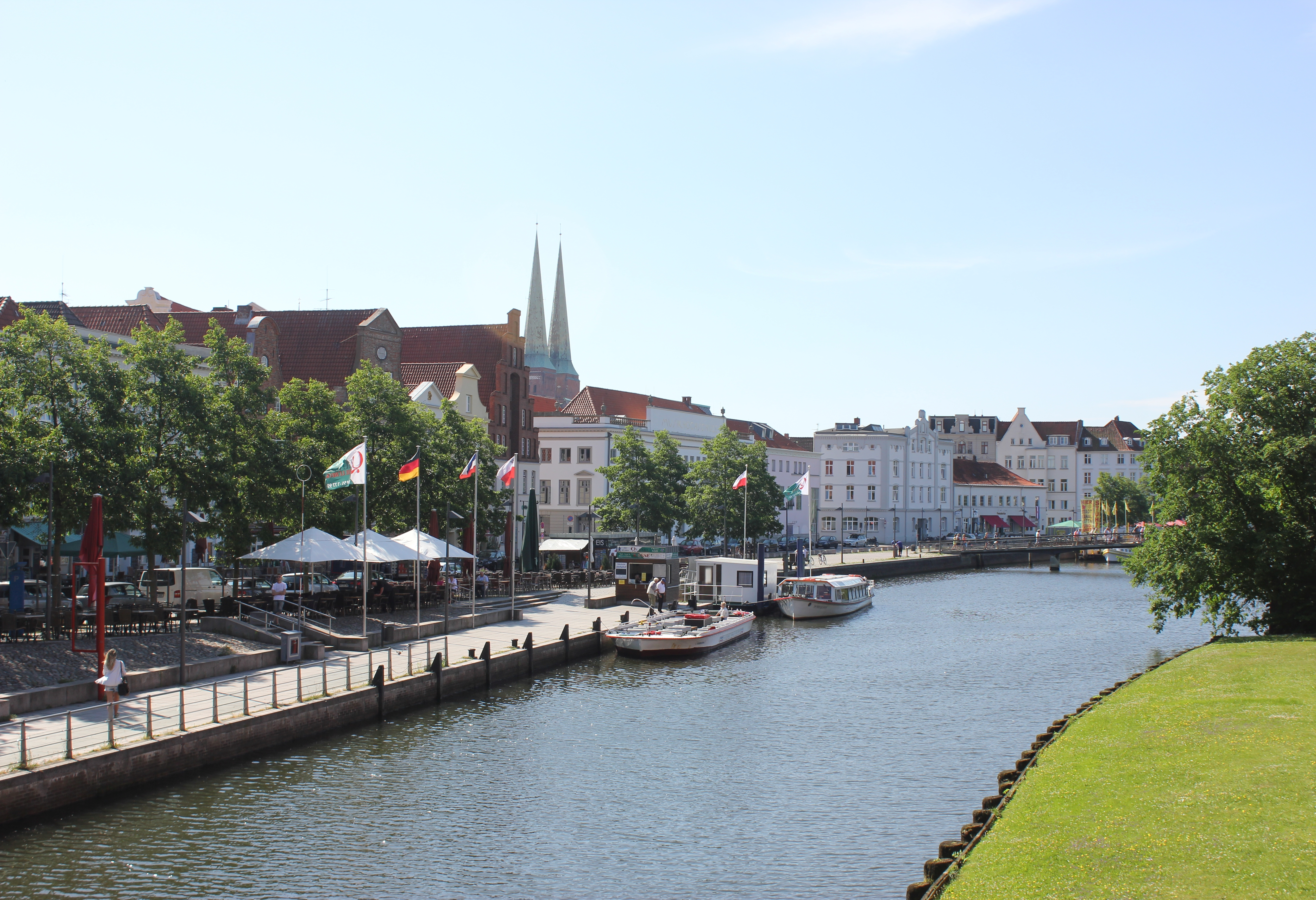 Lübeck - river Trave